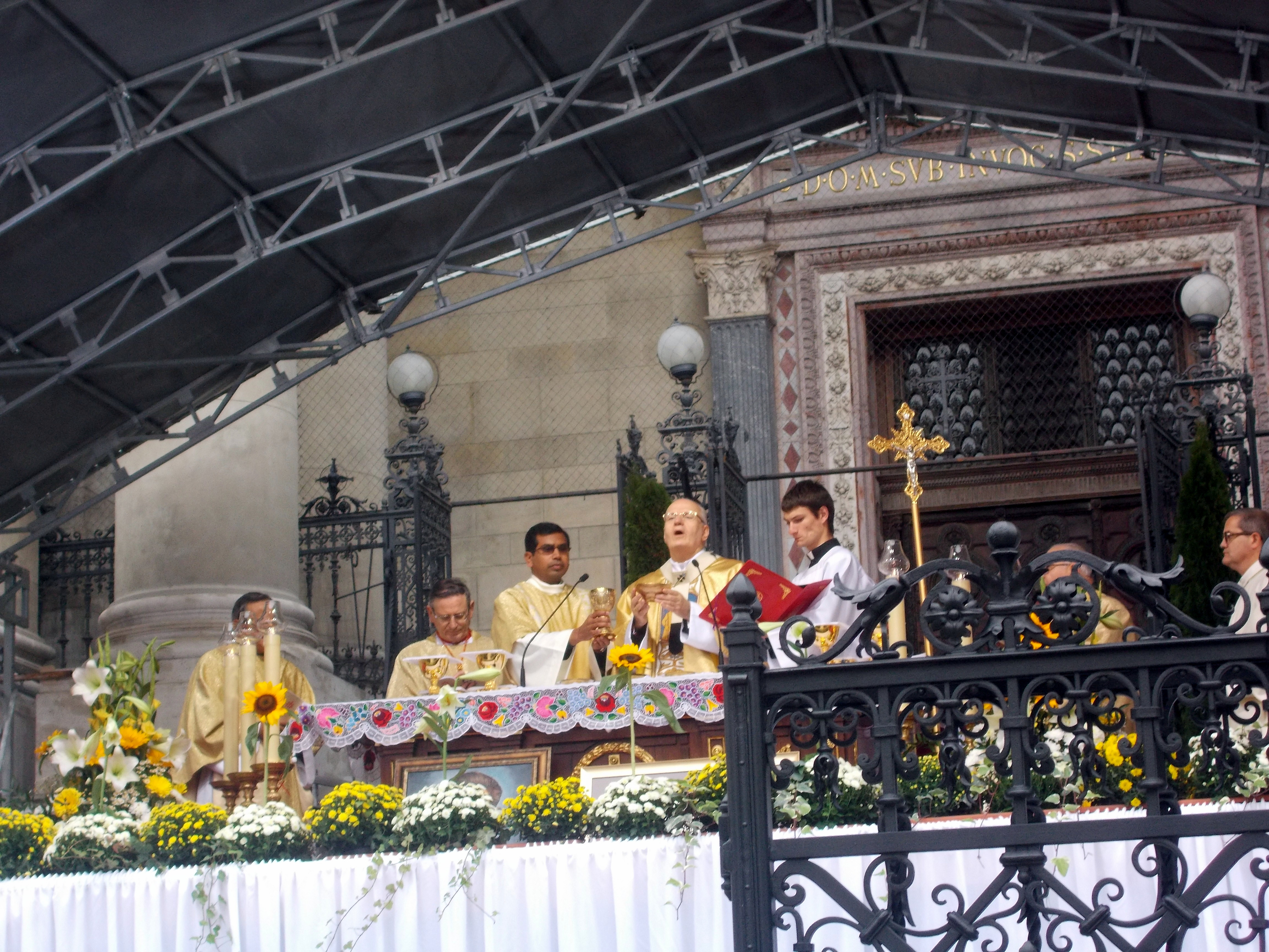 Cardinal Péter Erdő during beatification-mass of Sándor István in Budapest